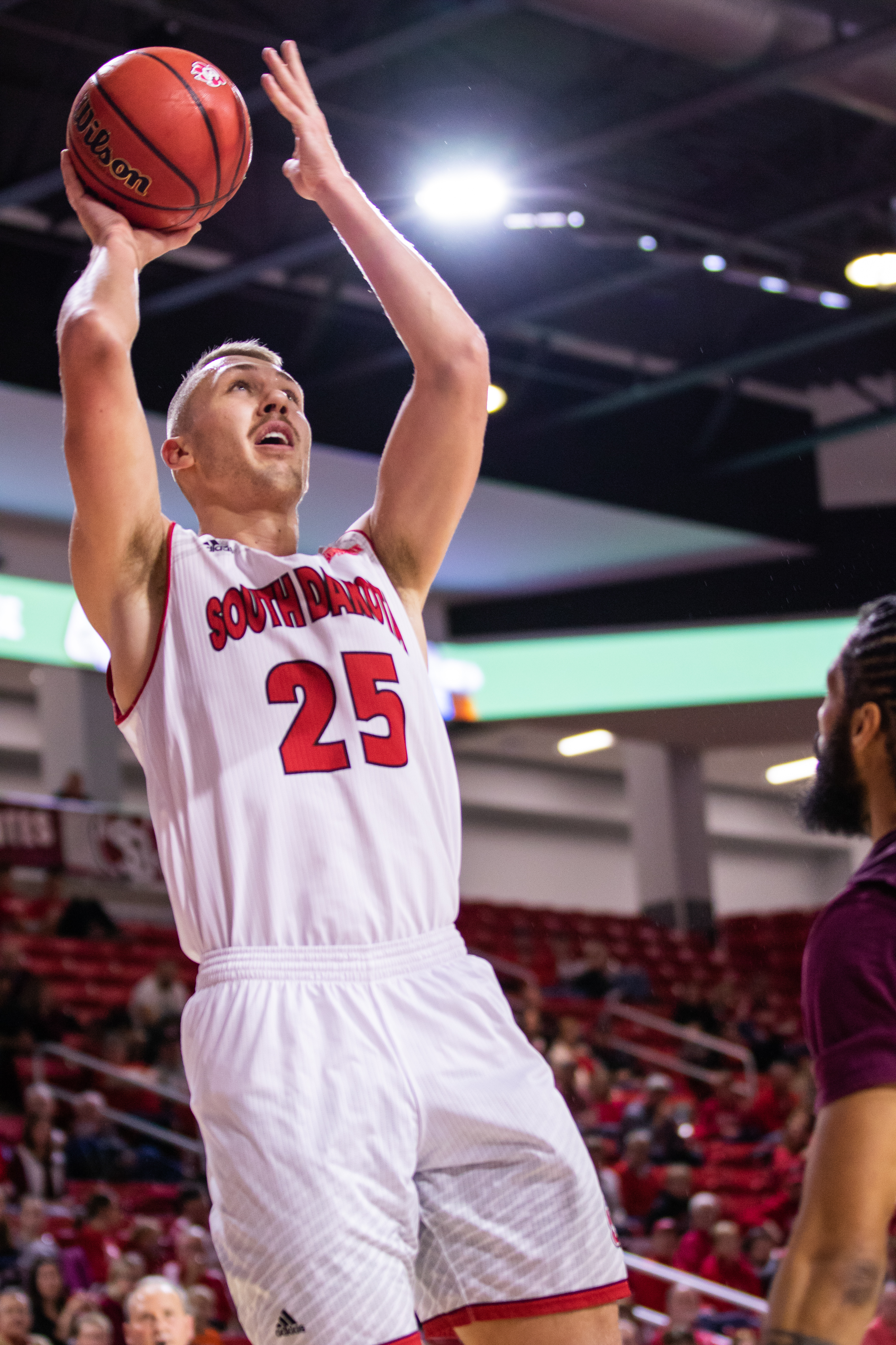 Photo by Peyton Beyers